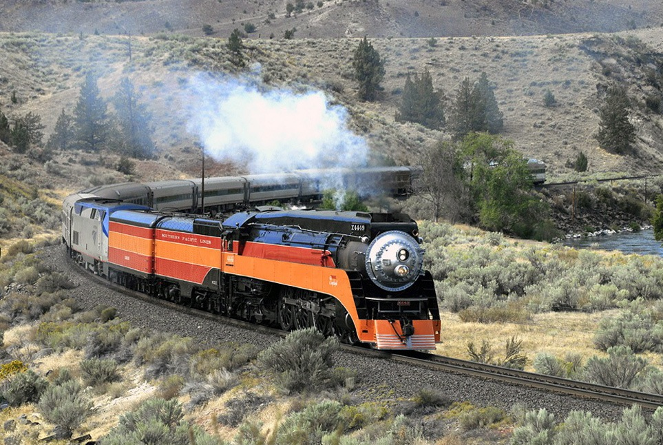 4449 at South Jct, Oregon. Sept 17 2006.